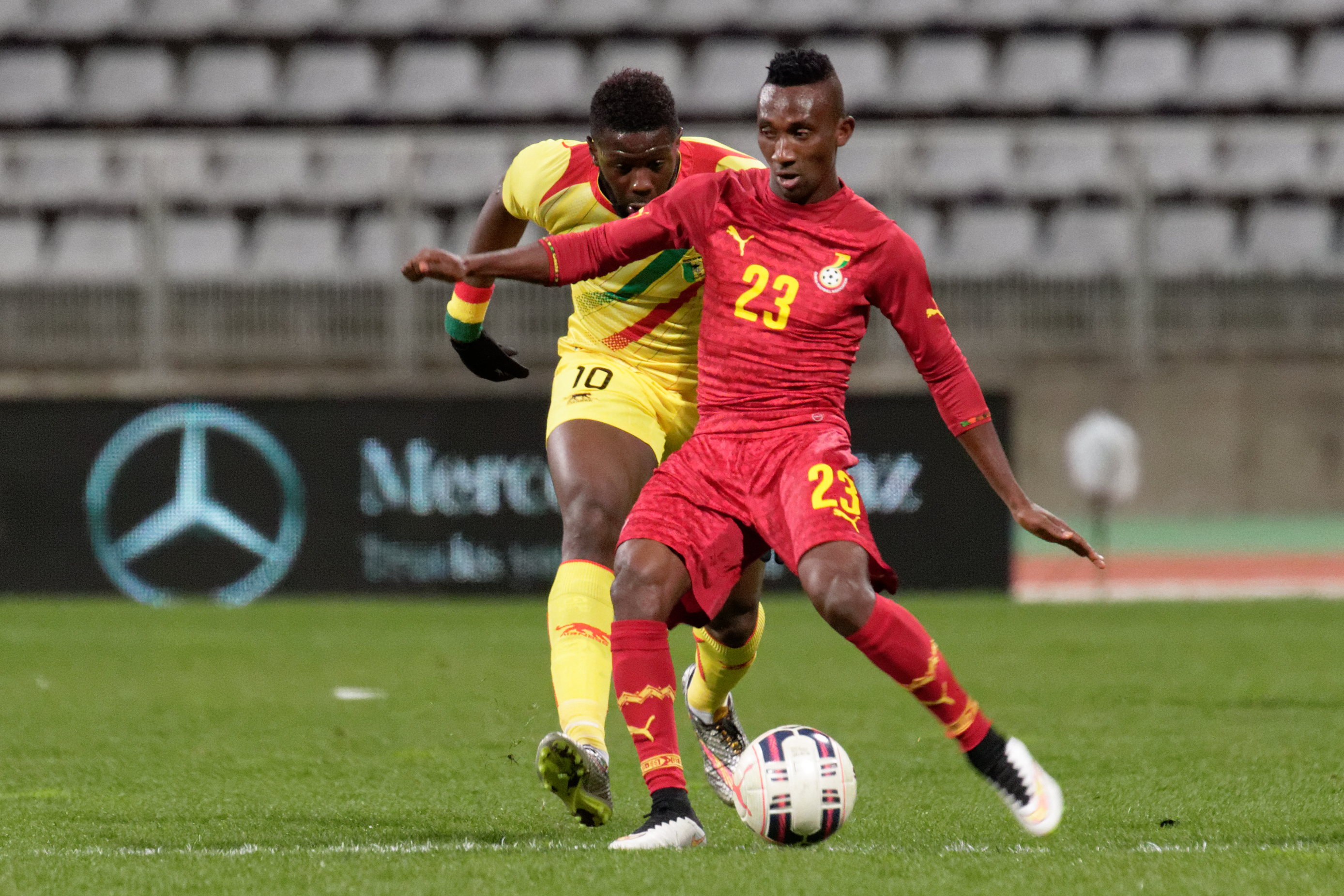 Mali vs Ghana, exhibition game at Paris, 31st March 2015.